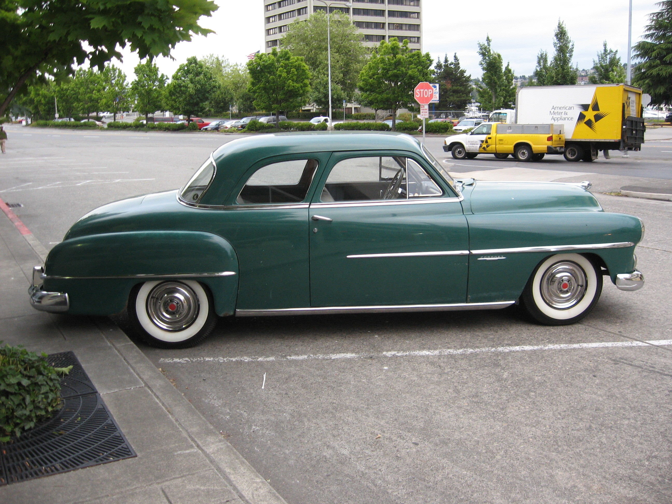 1951 Dodge Coronet coupe